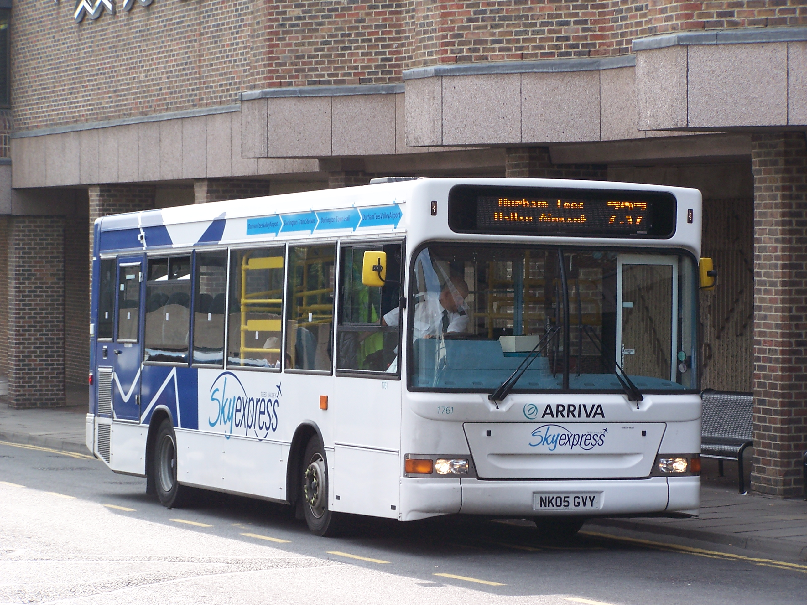 Photograph of the Sky Express bus service which linked Darlington town centre and Darlington railway station to Durham Tees Valley Airport. It is Arriva North East's 1761 (NK05 GVY), a Dennis Dart SLF/Plaxton Pointer.